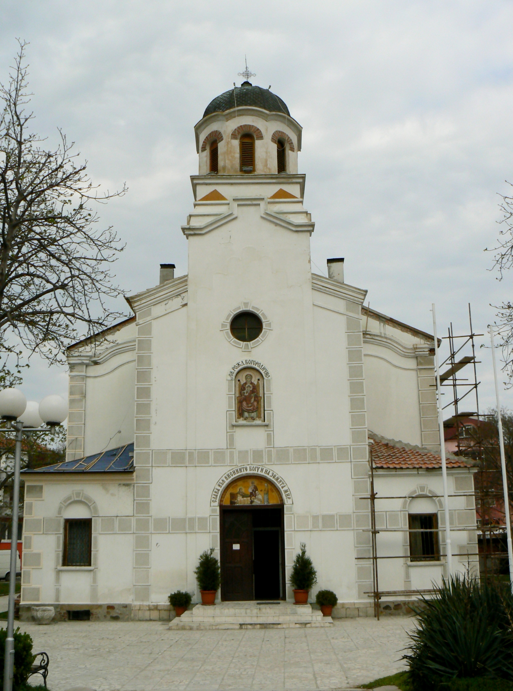 The Nativity of Theotokos Church in the town of Pomorie in Bulgaria (year 2010)